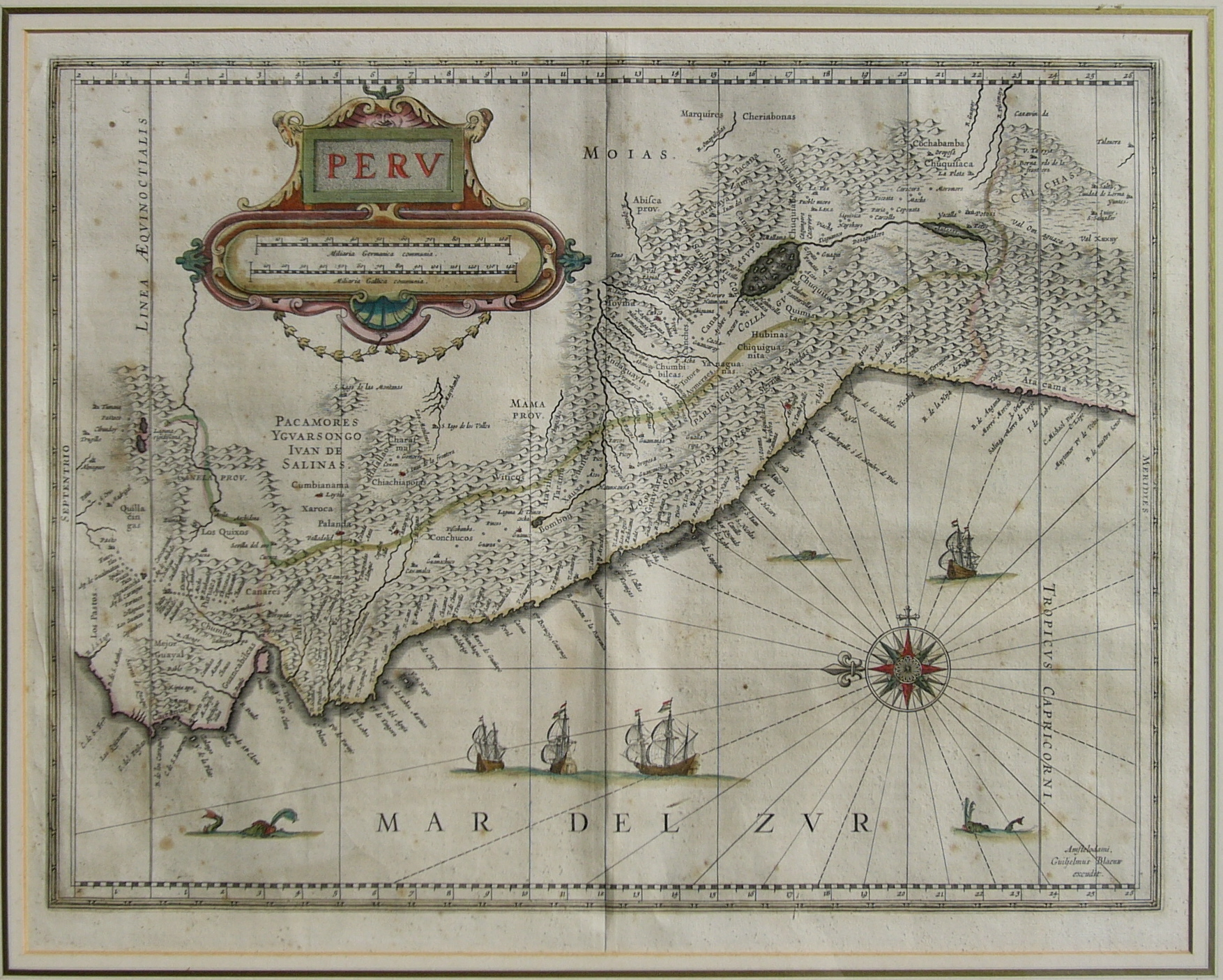 Map of Peru.